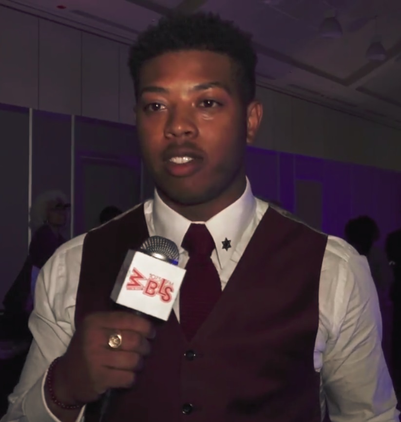 Michigan politician Jewell Jones speaks with New York City radio station WBLS at the 108th NAACP Convention in Baltimore, MD.